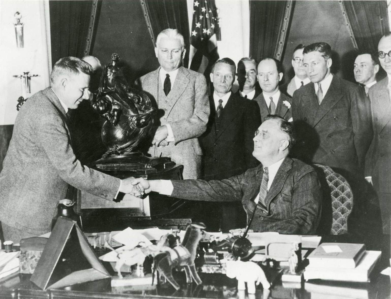 Frank W. Caldwell is congratulated by President Franklin D. Roosevelt on the award of the Collier Trophy (visible in the background) in 1933 for his work with Hamilton Standard on the controllable-pitch propeller. NASM-NAM-A-48118